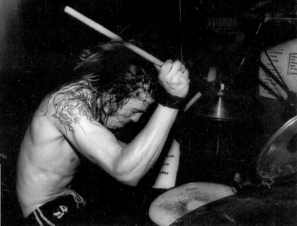 Dave Grohl playing with Scream